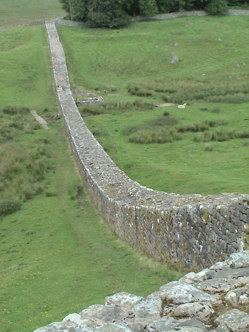 Part of Hadrian's wall near Housesteads. Photo taken July 2005.